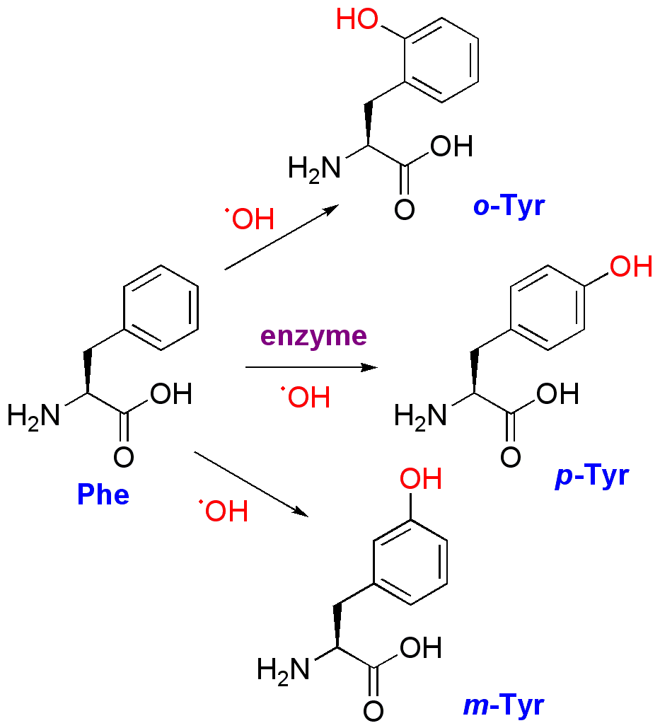 Reaction scheme for the formation of 3 Tyr isomers from Phe.